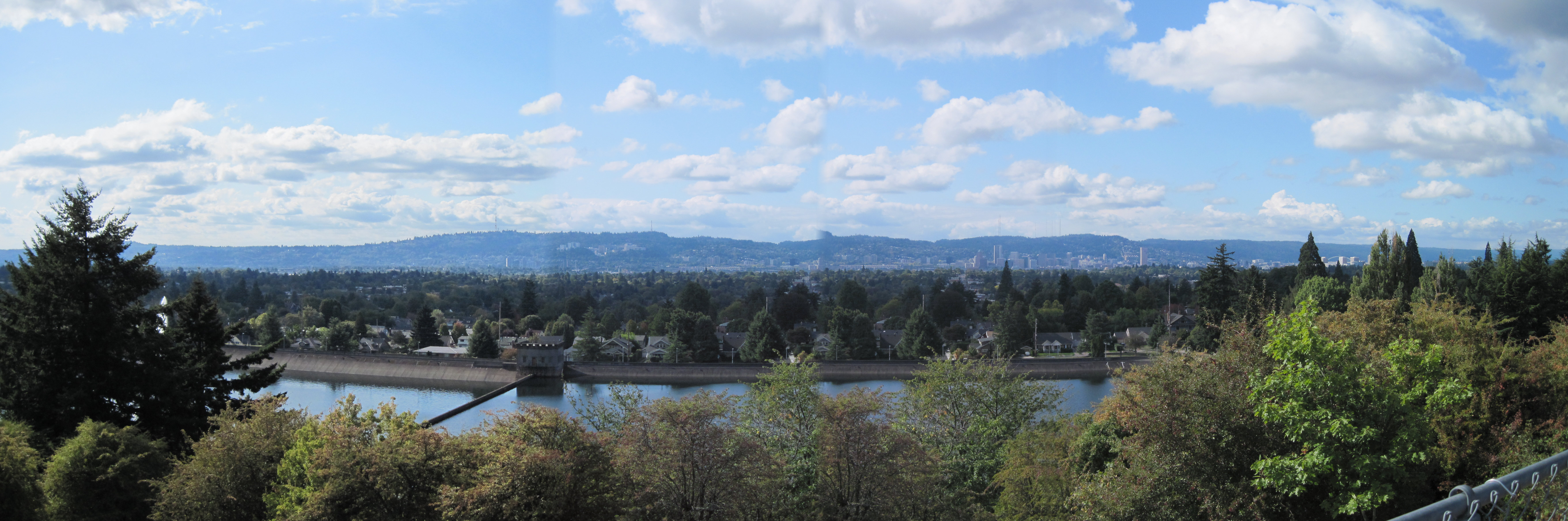 Shot of Portland from Mt. Tabor. Stitched Panoramic.